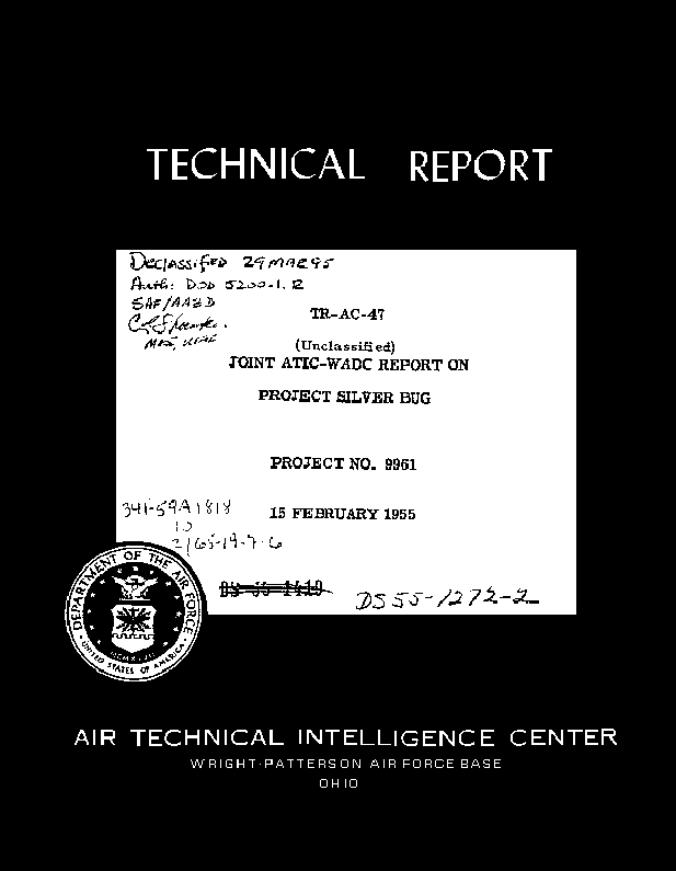 Cover page of Project Silver Bug report.